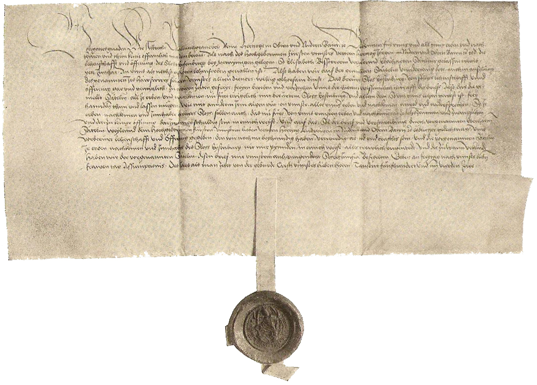 This is a scan of the document: Ludwig Mayr - Geschichte der Herrschaft Eisenburg (History of the Herrschaft Eisenburg)